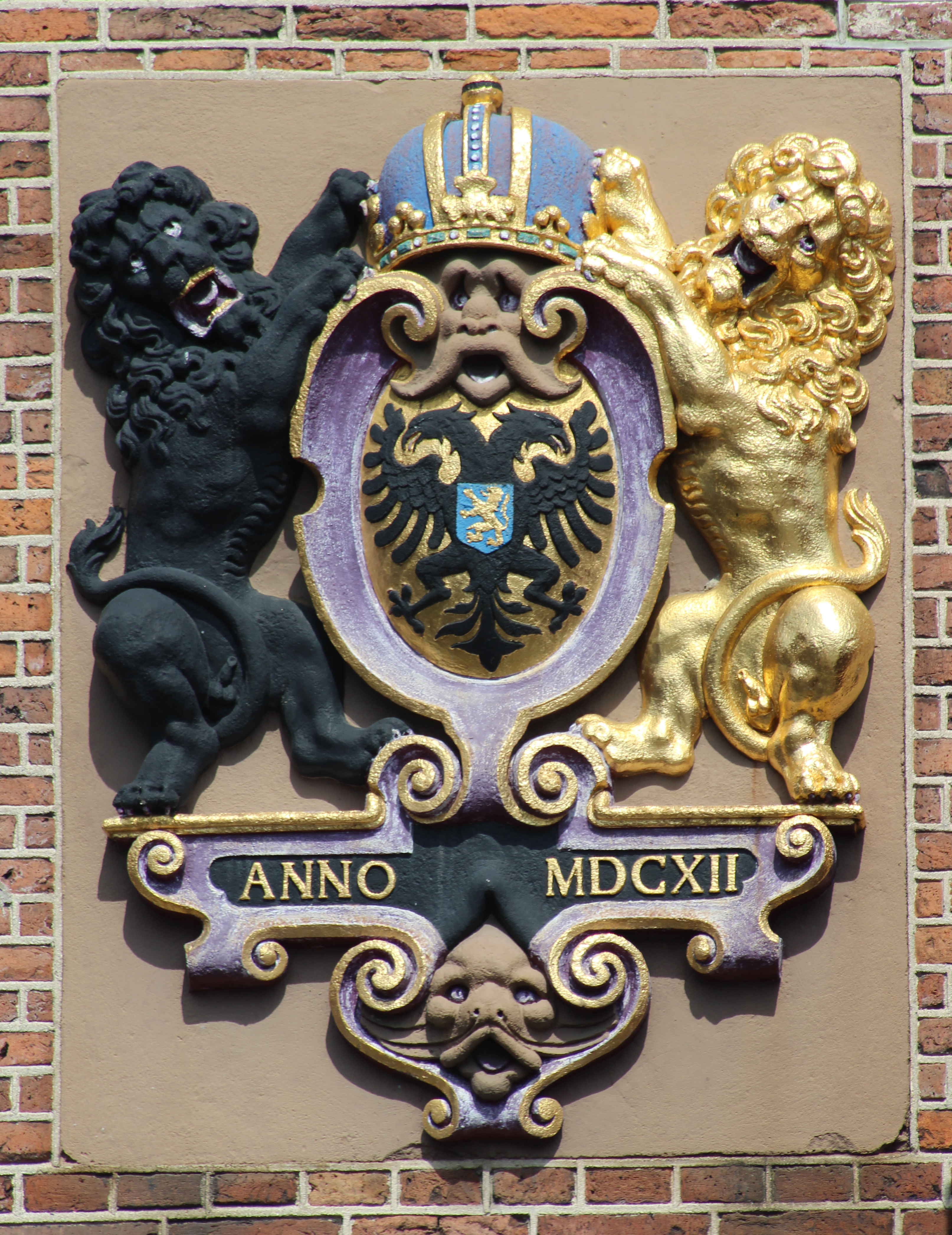 Coat of arms of the Dutch city of Nijmegen by Henri Leeuw (1819-1909) attached to the wall of the Boterwaag[nl] (originally the principal guardroom).